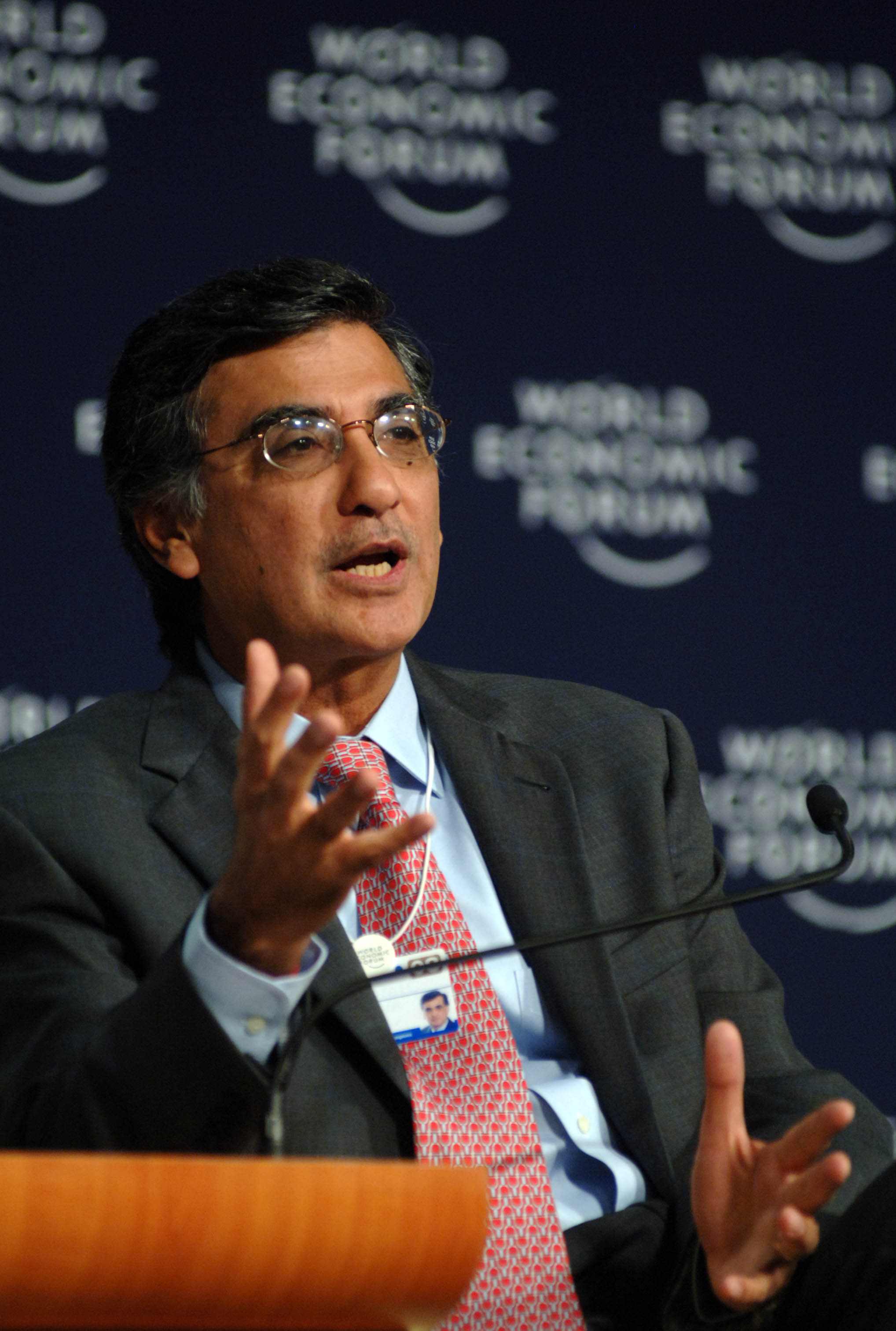 TIANJIN/CHINA, 28SEPT08 - Harish Manwani, President, Asia, Africa, Central and Eastern Europe, Unilever, speaks during the Market Insight: Frontier Markets plenary session in Tianjin, China 28 September 2008. Copyright World Economic Forum ( by Adam Nadel